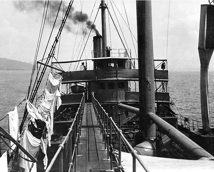 Photo #: NH 71565 USS Sara Thompson (AO-8) View on deck, looking aft toward the bridge with laundry drying at left, circa the early 1920s. Courtesy of Donald M. McPherson, 1970.